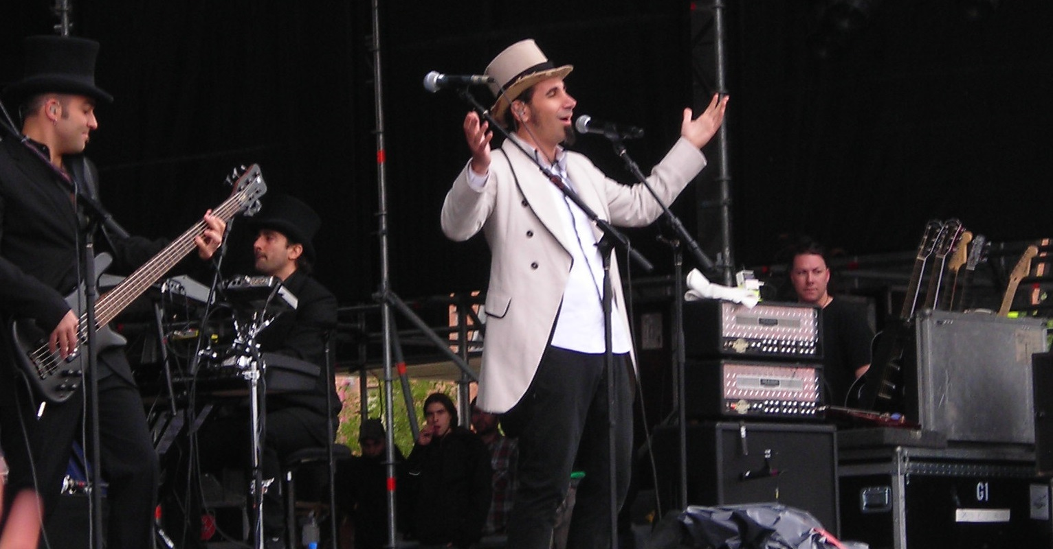 Serj Tankian no Electric Festival 2008 en Getafe.